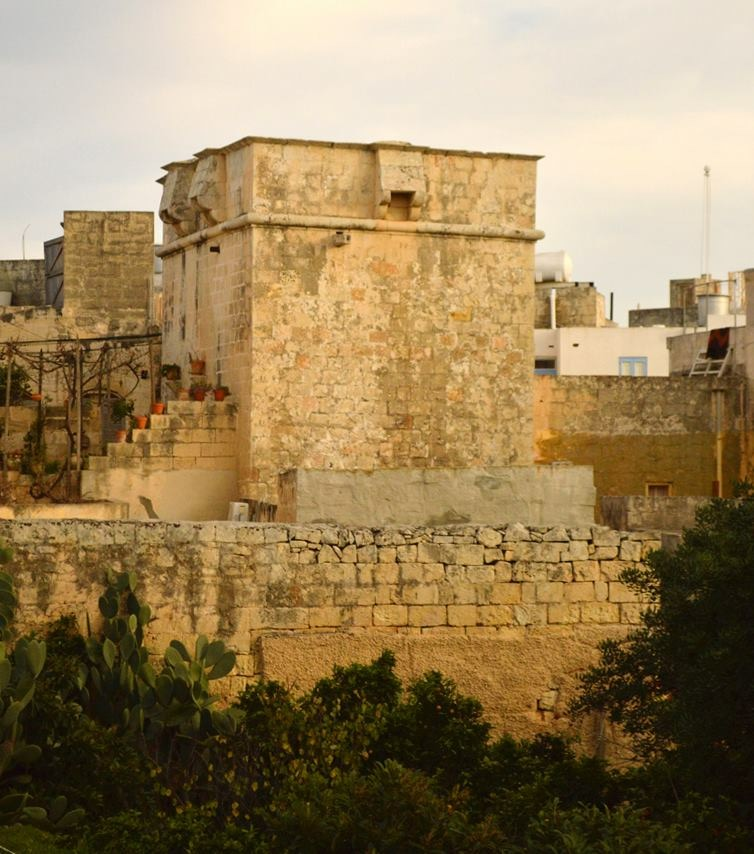 Birkirkara defense tower